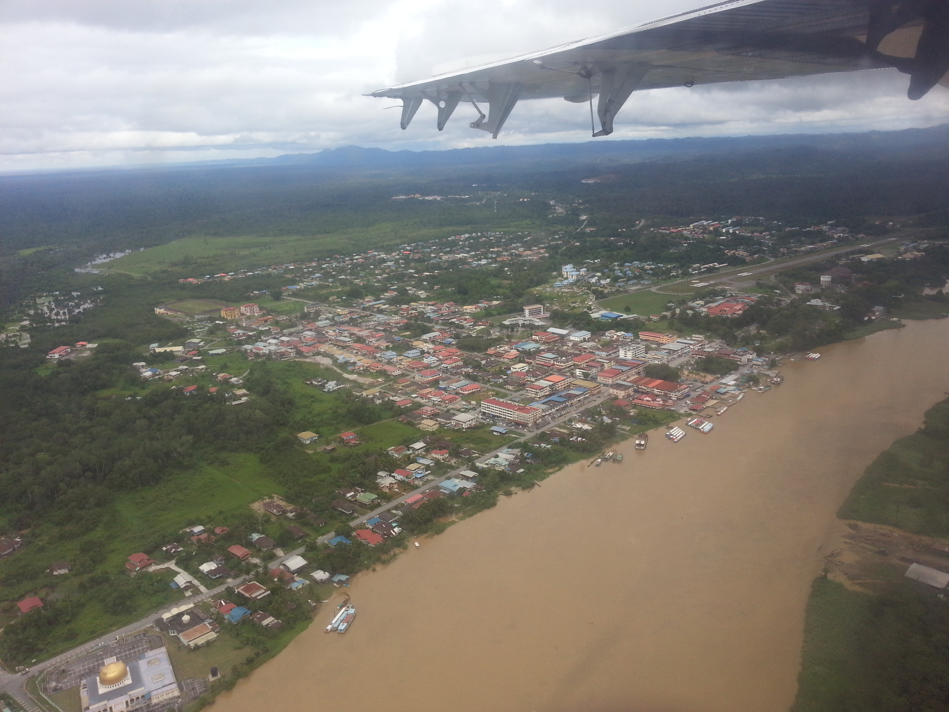 Marudi view took from MASwings Twin Otter before landing at Marudi Airport.